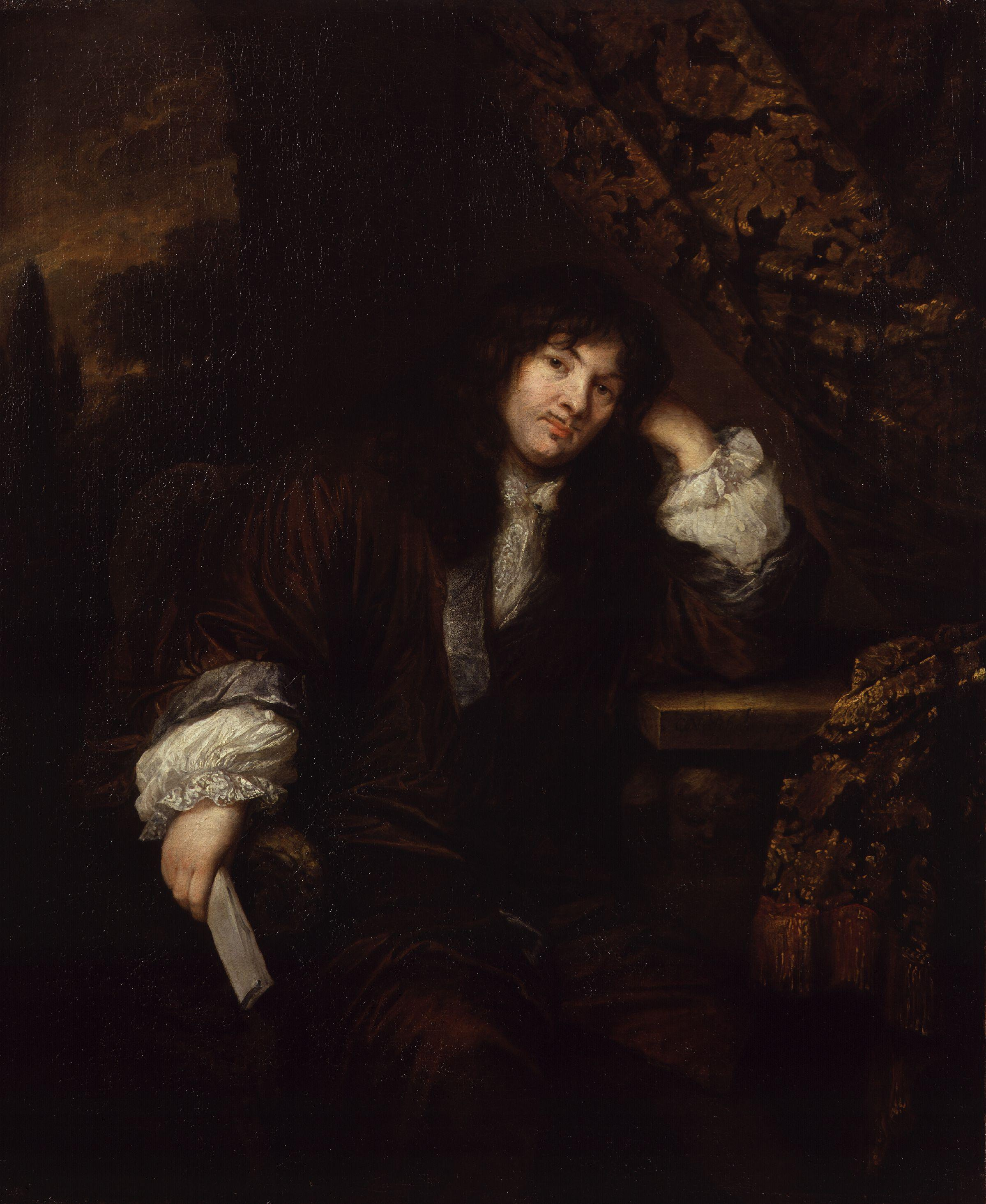 Sir William Temple, Bt, by Gaspar Netscher (died 1684). All images in this batch have been confirmed as author died before 1939 according to the official death date listed by the NPG.